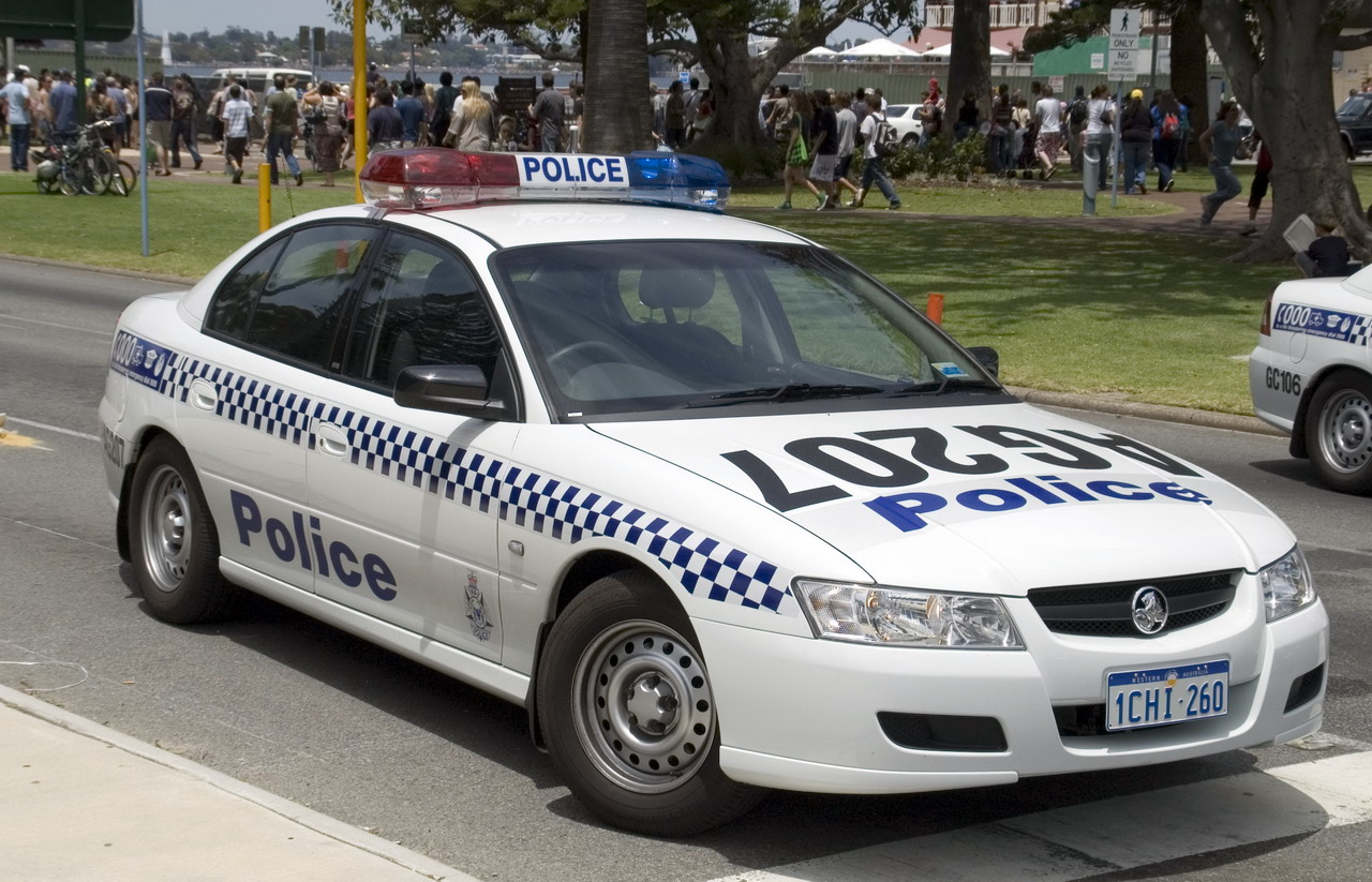 Western Australia Police AG207 Perth District traffic sedan.